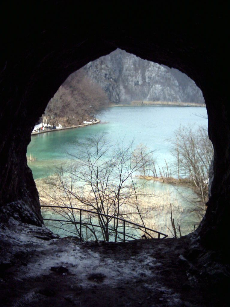 View from Šupljara cave at the Lower Lakes of Plitvice Lakes National Park, Croatia.